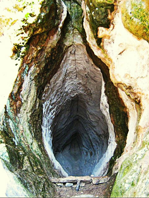 Womb Cave TanKaya BG